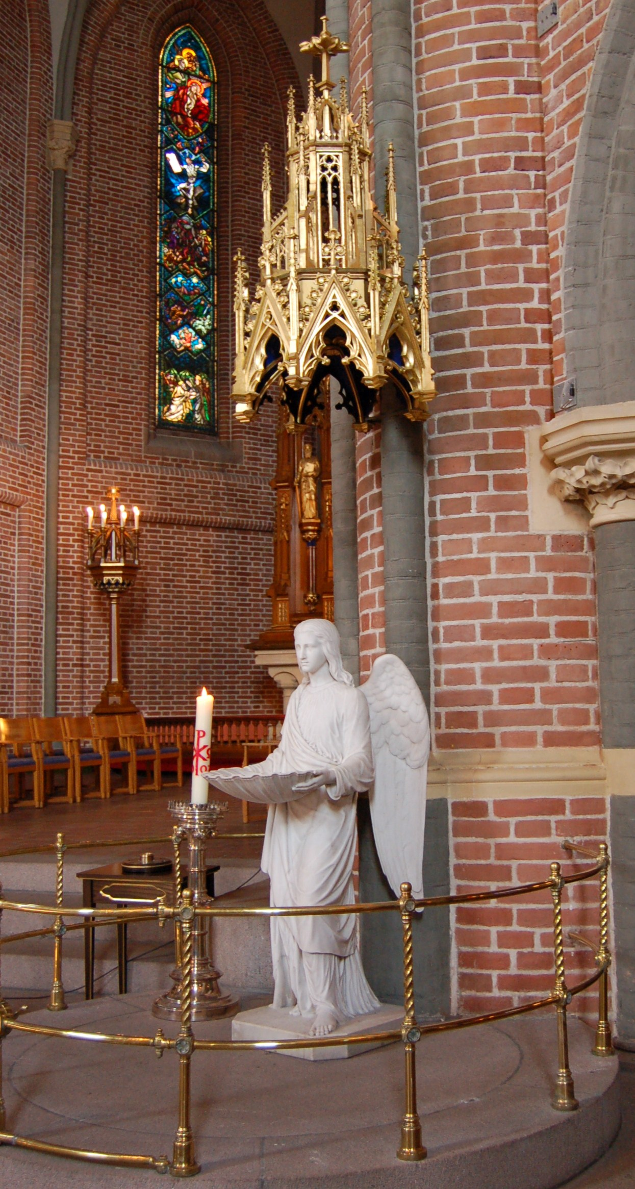 Baptismal angel/font from 1864 by Julius Middelthun in Trefoldighetskirken Oslo